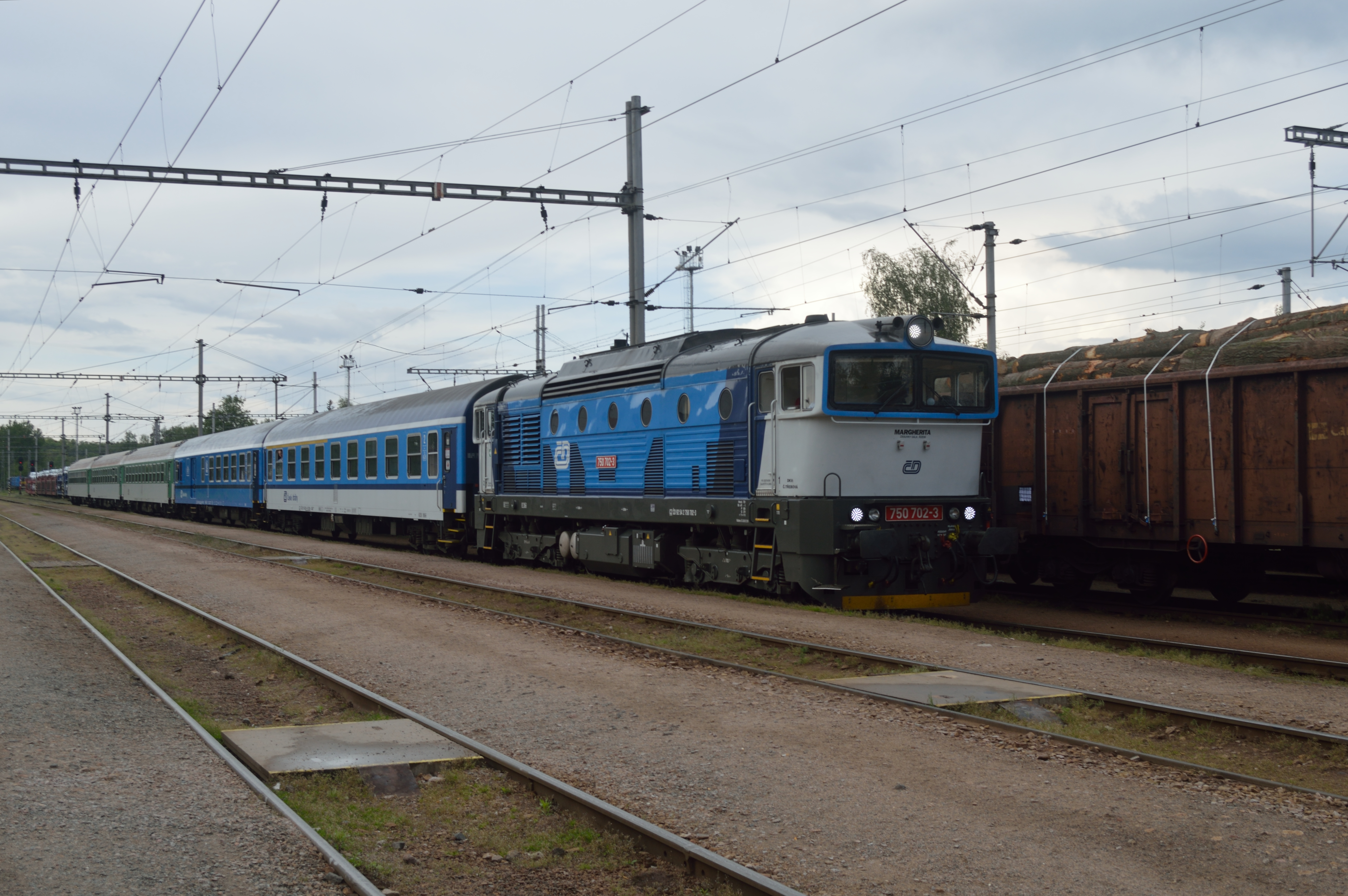 750.702 approaches Týniště nad Orlicí on train R935 "Kyšperk", 15:11 Praha hl.n. to Letohrad on 13 May 2014.